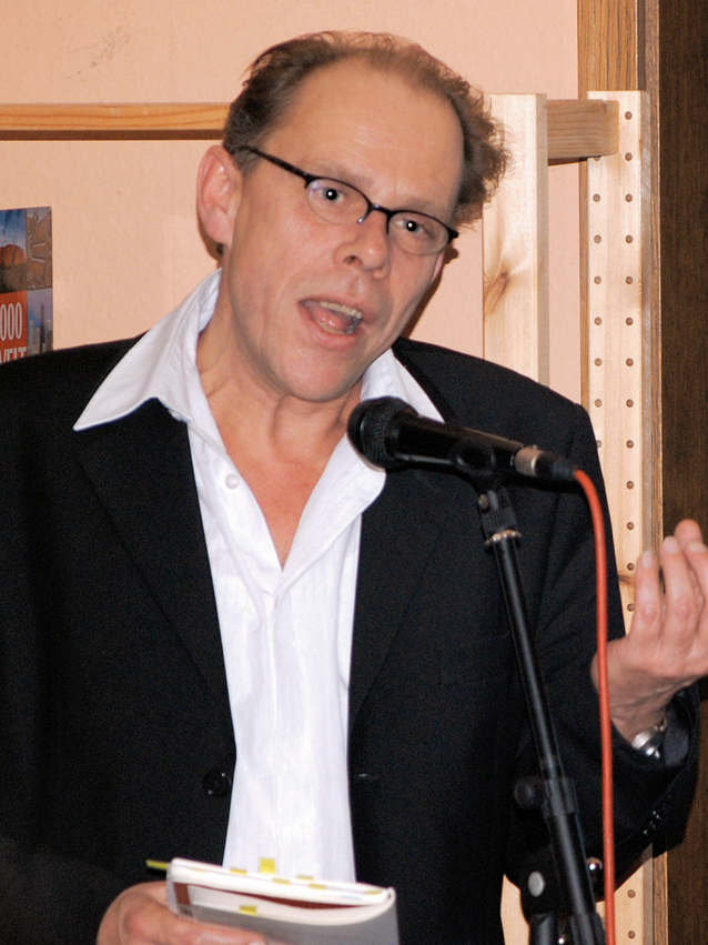 Frank Starik Lesung beim LesArt-Festival im Taranta Babu in Dortmund am 11. November 2010, Foto von Hartmut Salmen